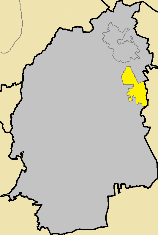 Archangelos Michail in Latsia.